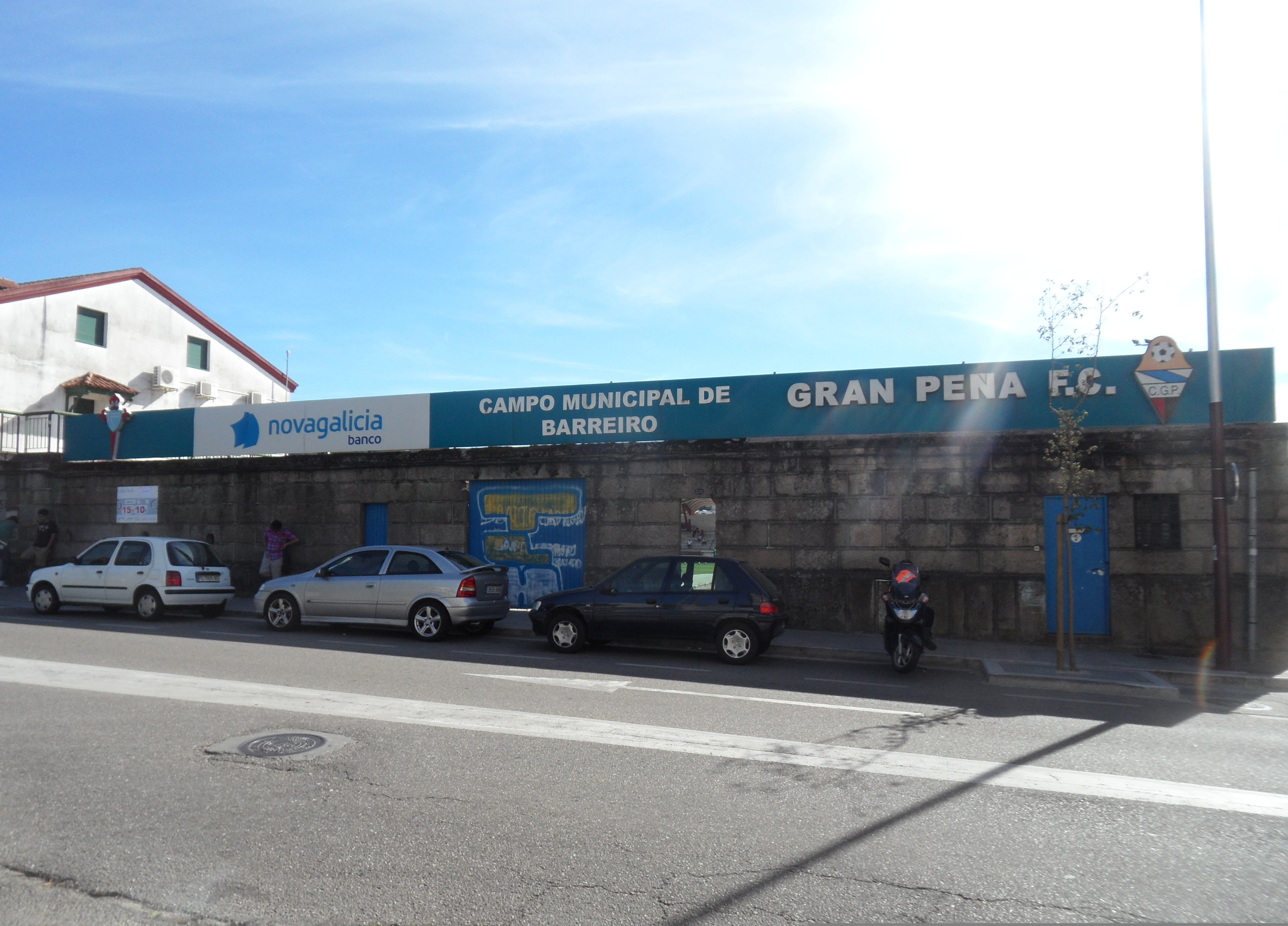 Main façade of the Municipal Stadium of Barreiro, in Vigo, Spain